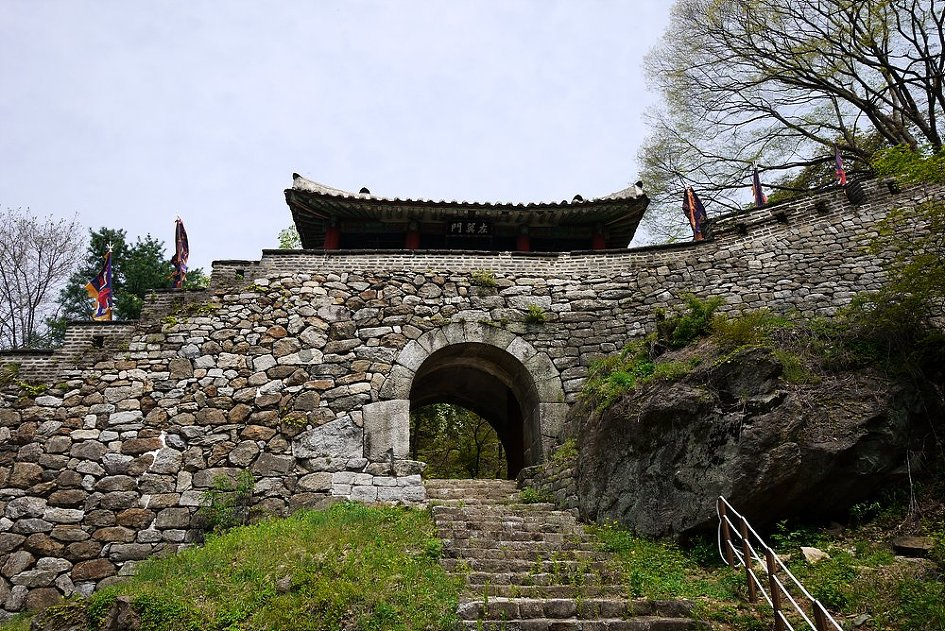 The east gate of Namhansanseong